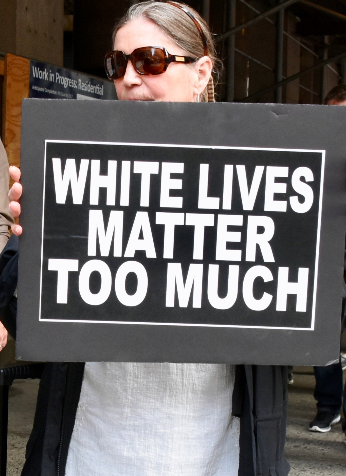 Women displays a sign reading: "White Lives Matter Too Much"